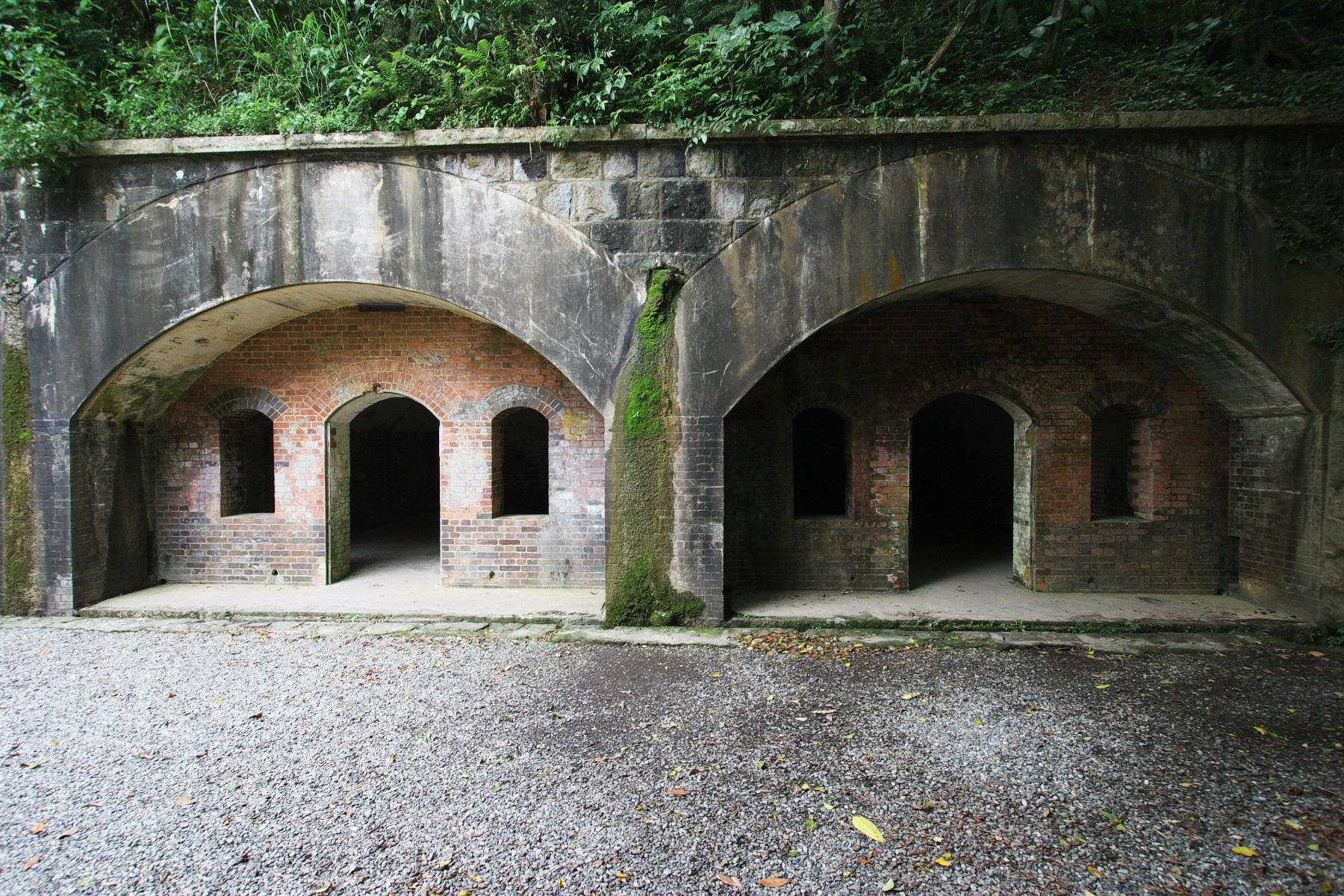 Dawulun Fort's barracks in Keelung City, Taiwan.